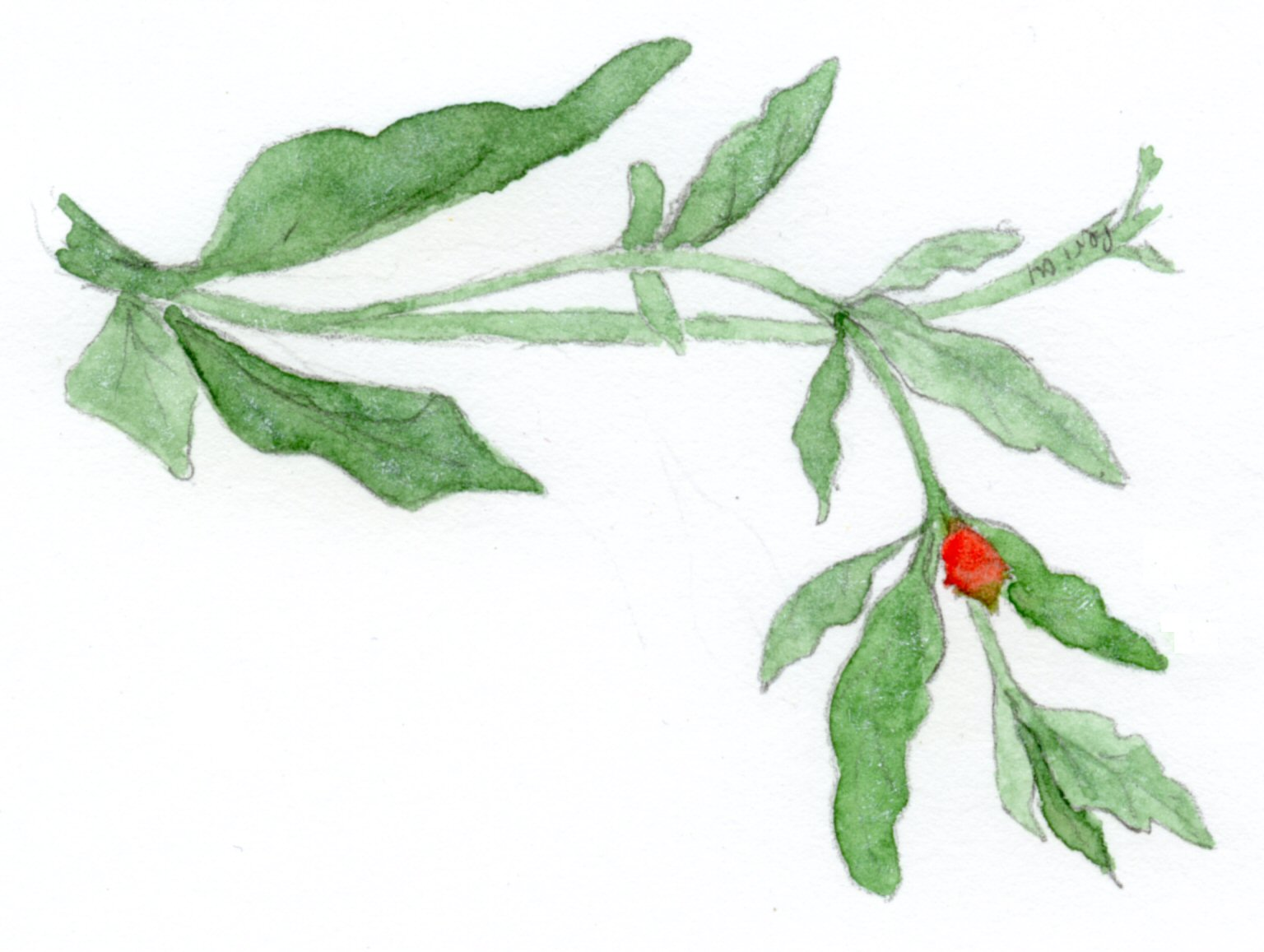 Watercolour of Atriplex semibaccata